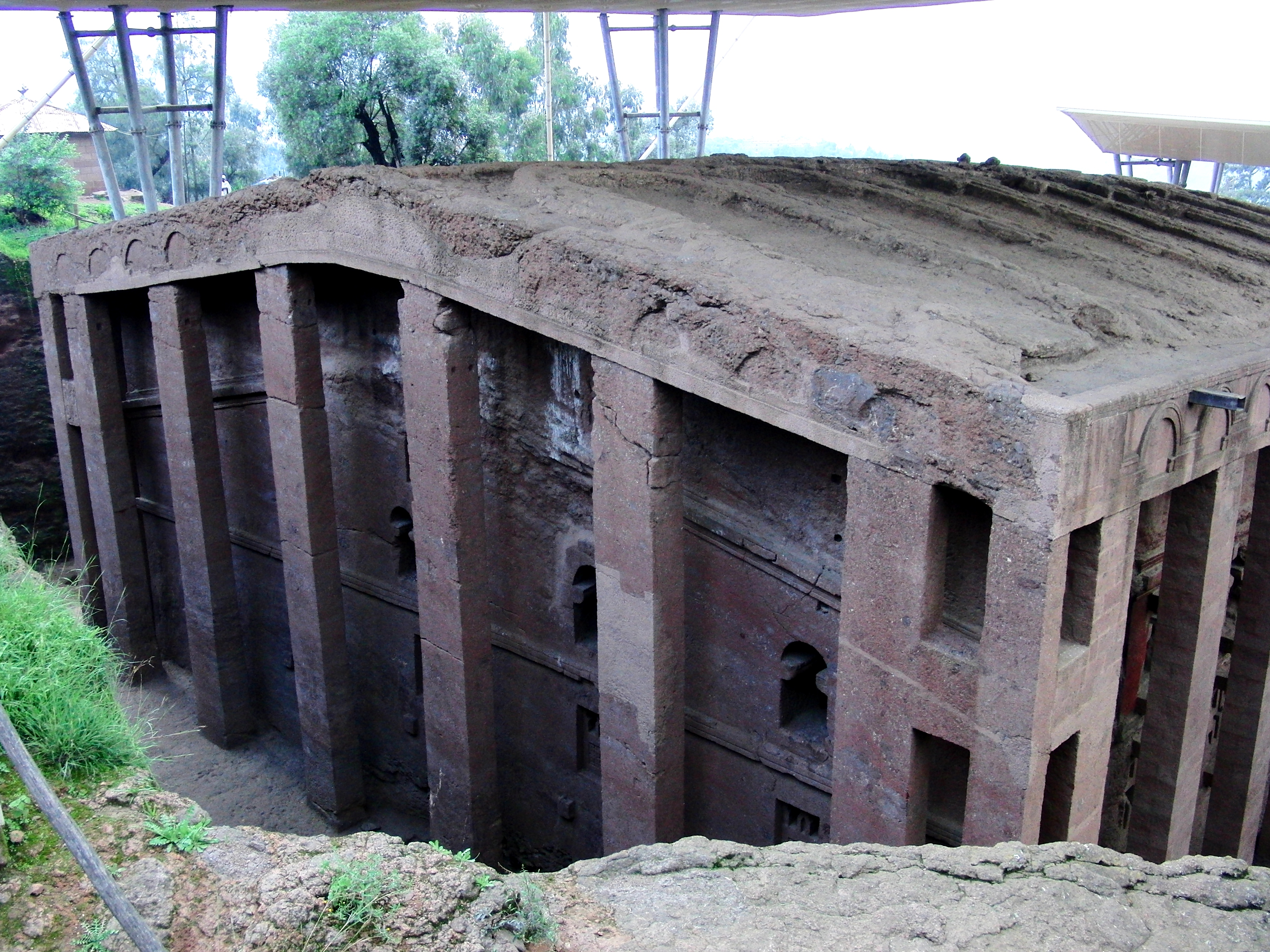 Outer view of the church Bete Medhane Alem in Lalibela, North Ethiopia.